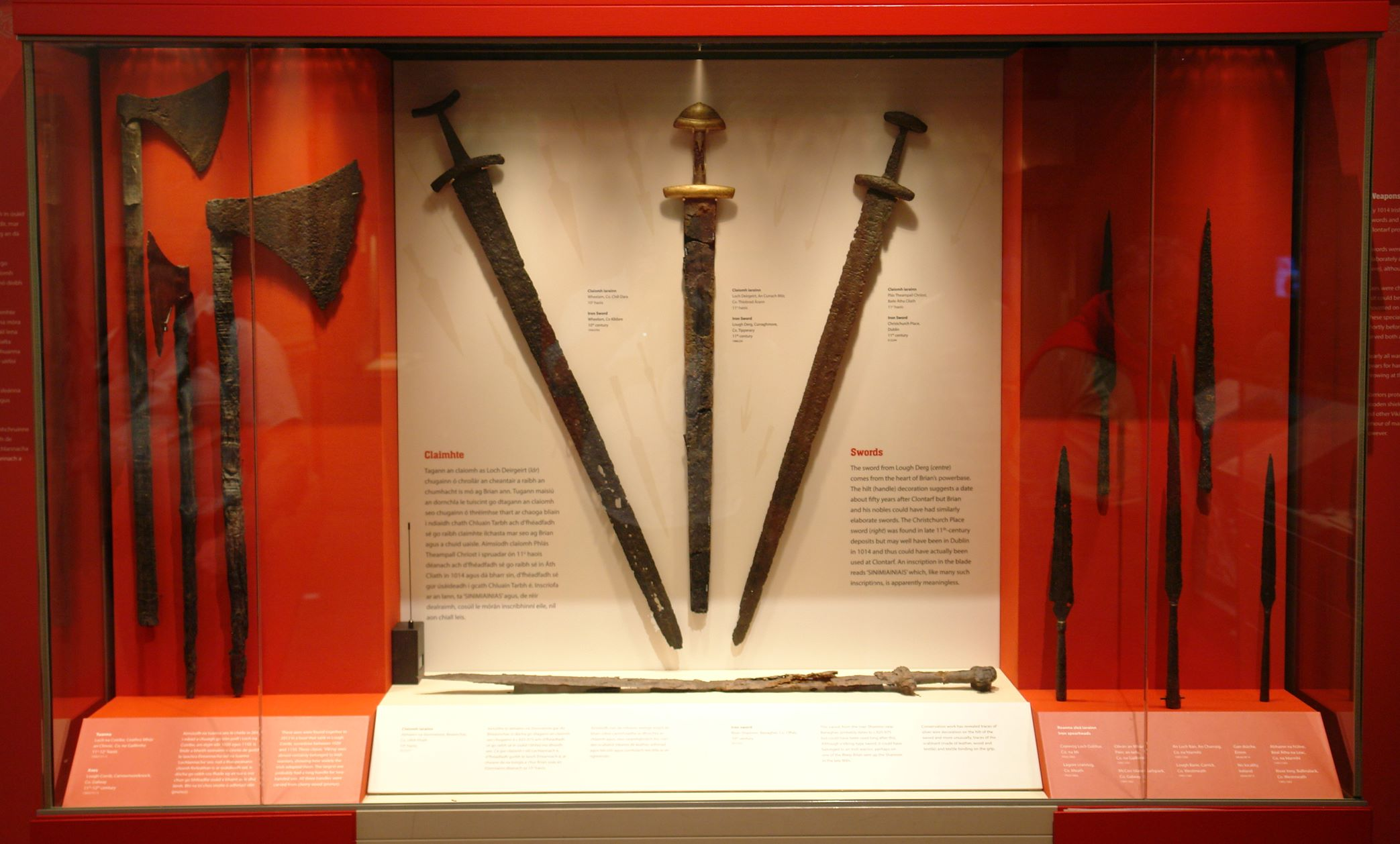 Artefact in the National Museum of Ireland, Kildare Street, Dublin, Ireland